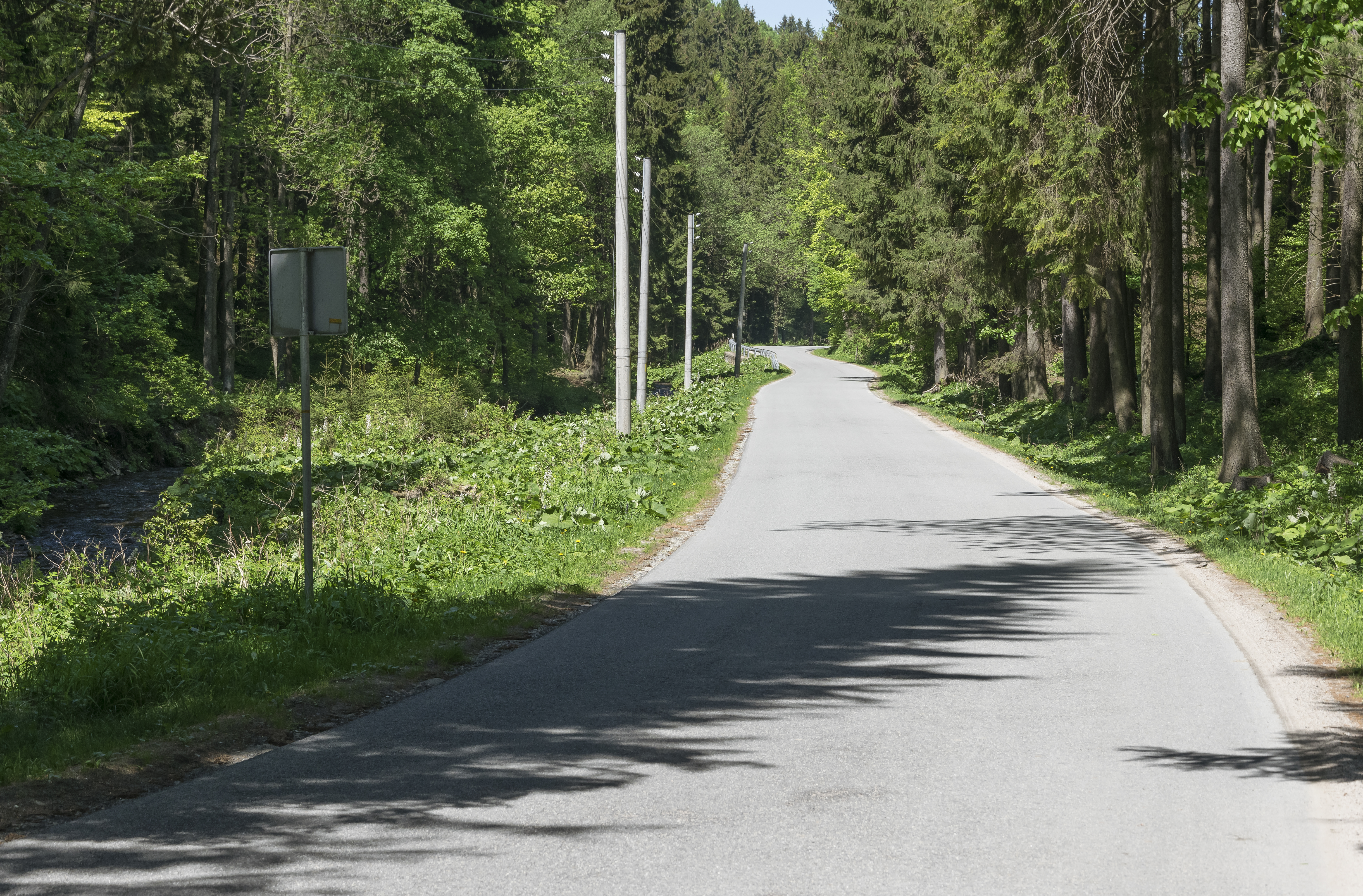 Dusznicka Road